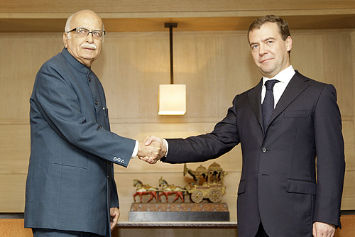 NEW DELHI. With opposition leader Lal Krishna Advani.